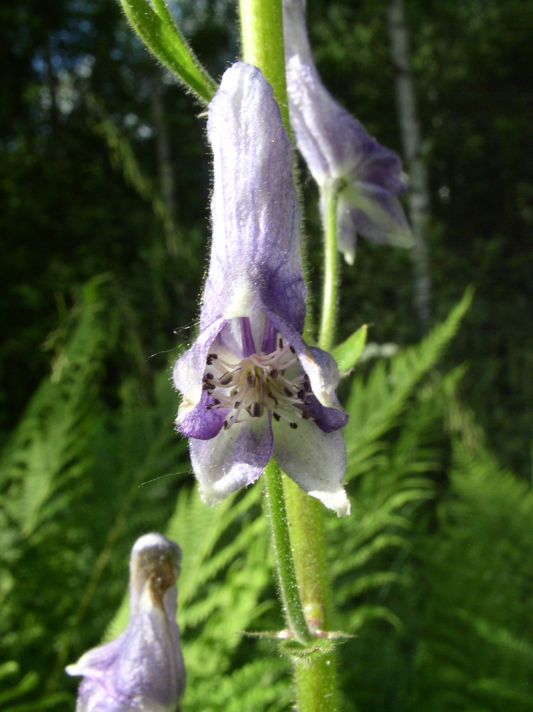 Aconitum lycoctonum (or Aconitum septentrionale) flower in Kitee, Finland.